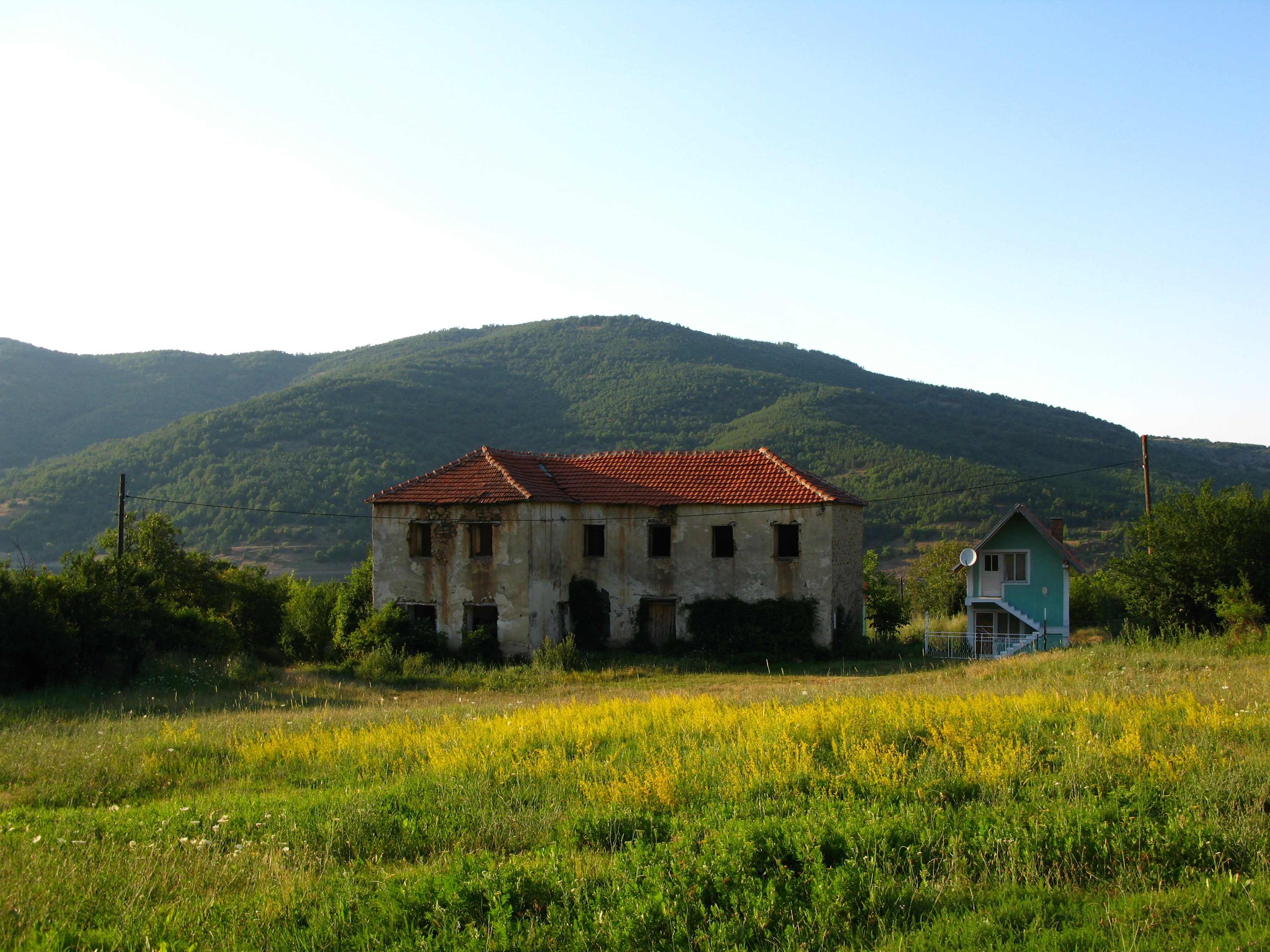 Streževo village, Macedonia.